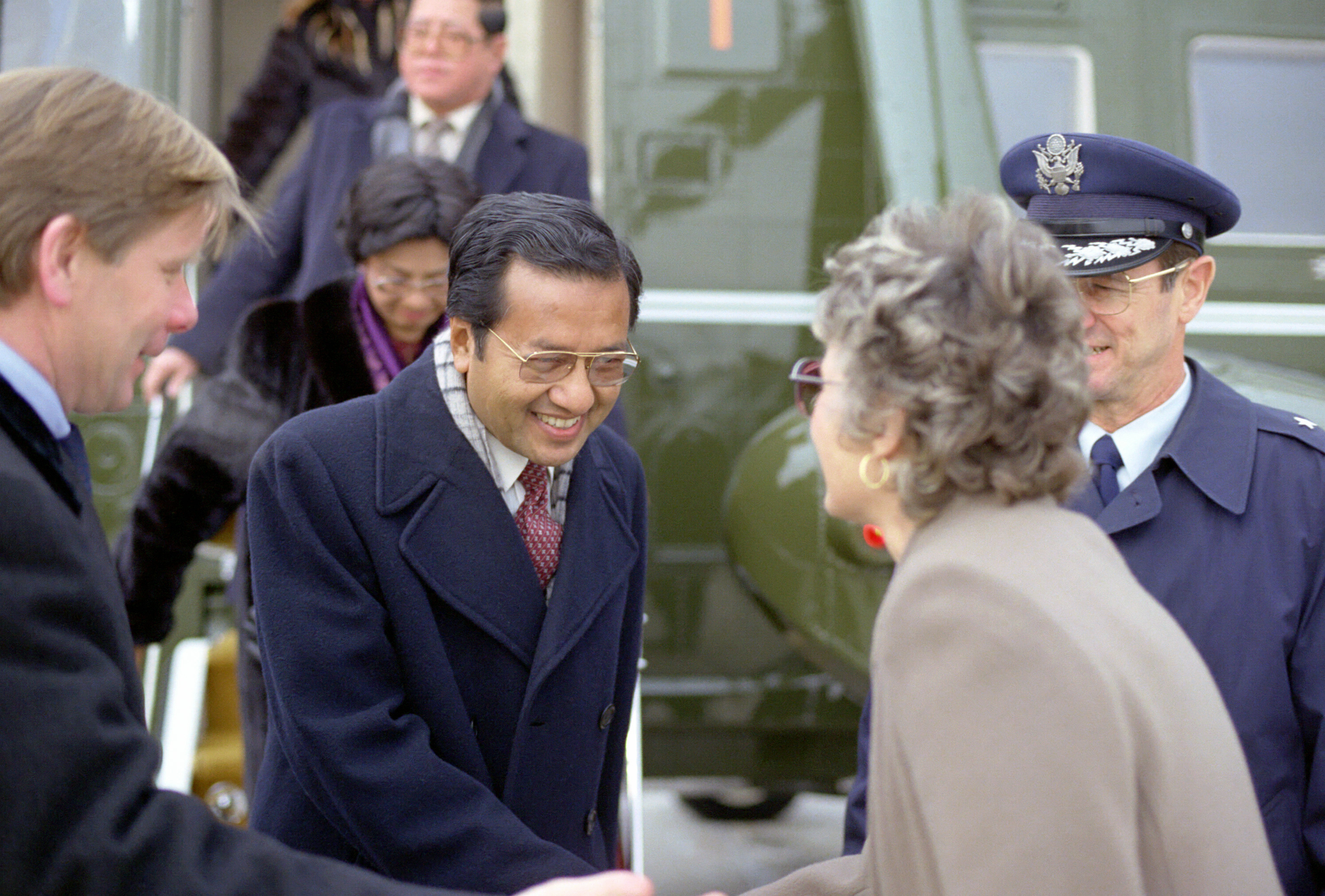 Dr. Mahathir bin Mohamad, prime minister of Malaysia, is greeted upon his arrival for a state visit.